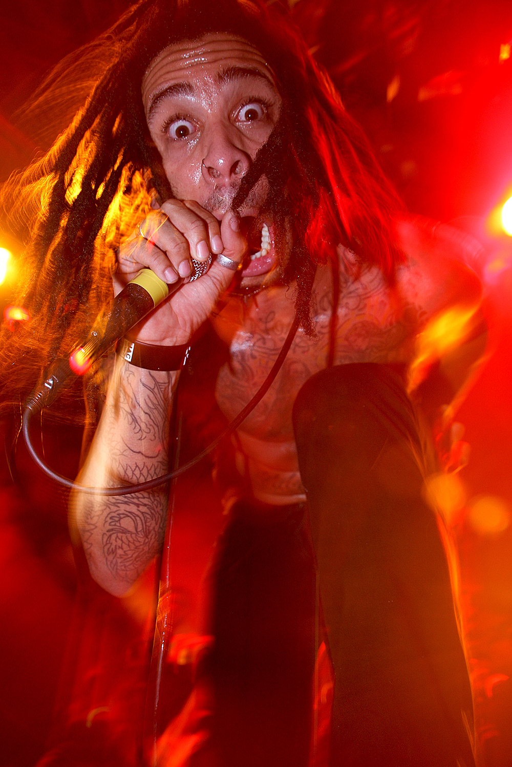 Bury Your Dead - Live @ Islington Academy - Santa Slaughter 2008